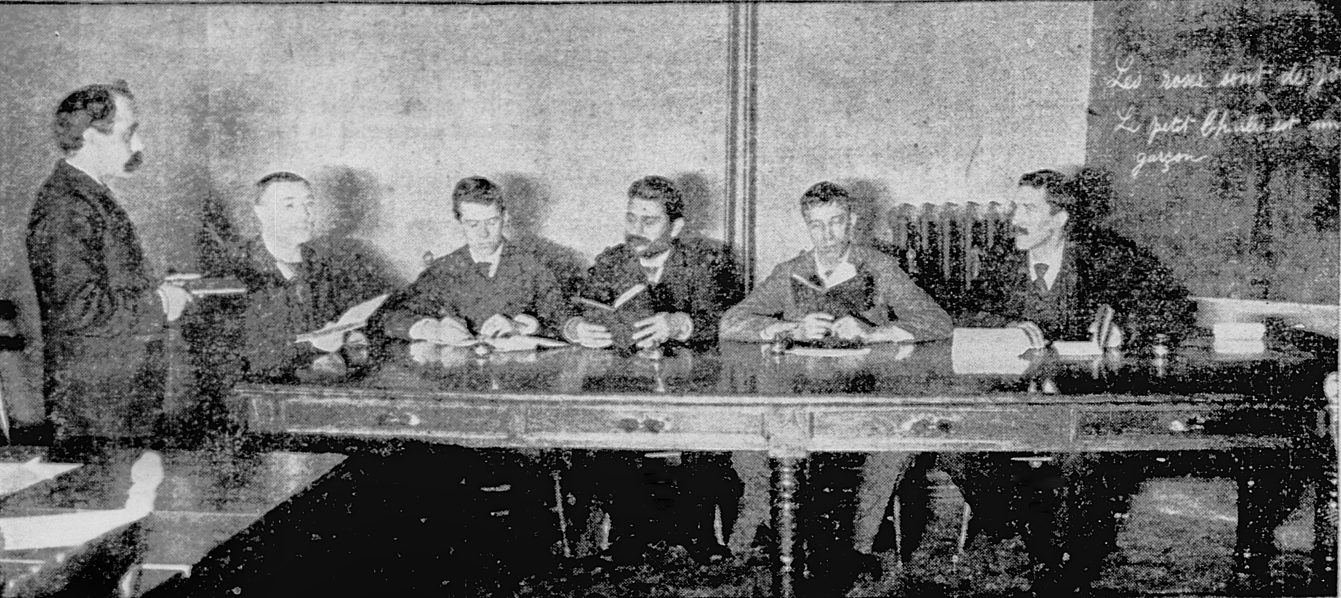 Holyoke French-Canadians learning English in a night school class at the local YMCA. The teacher is at the left, standing. Note the French on the chalkboard.